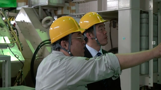 Kōsuke Morita, Professor of the Faculty of Science, Kyushu University, explained to Hiroshi Hase, Minister of Education, Culture, Sports, Science and Technology, the Nihonium at Nishina Center for Accelerator-Based Science, Riken in Wakō City, Saitama Prefecture on June 9, 2016.